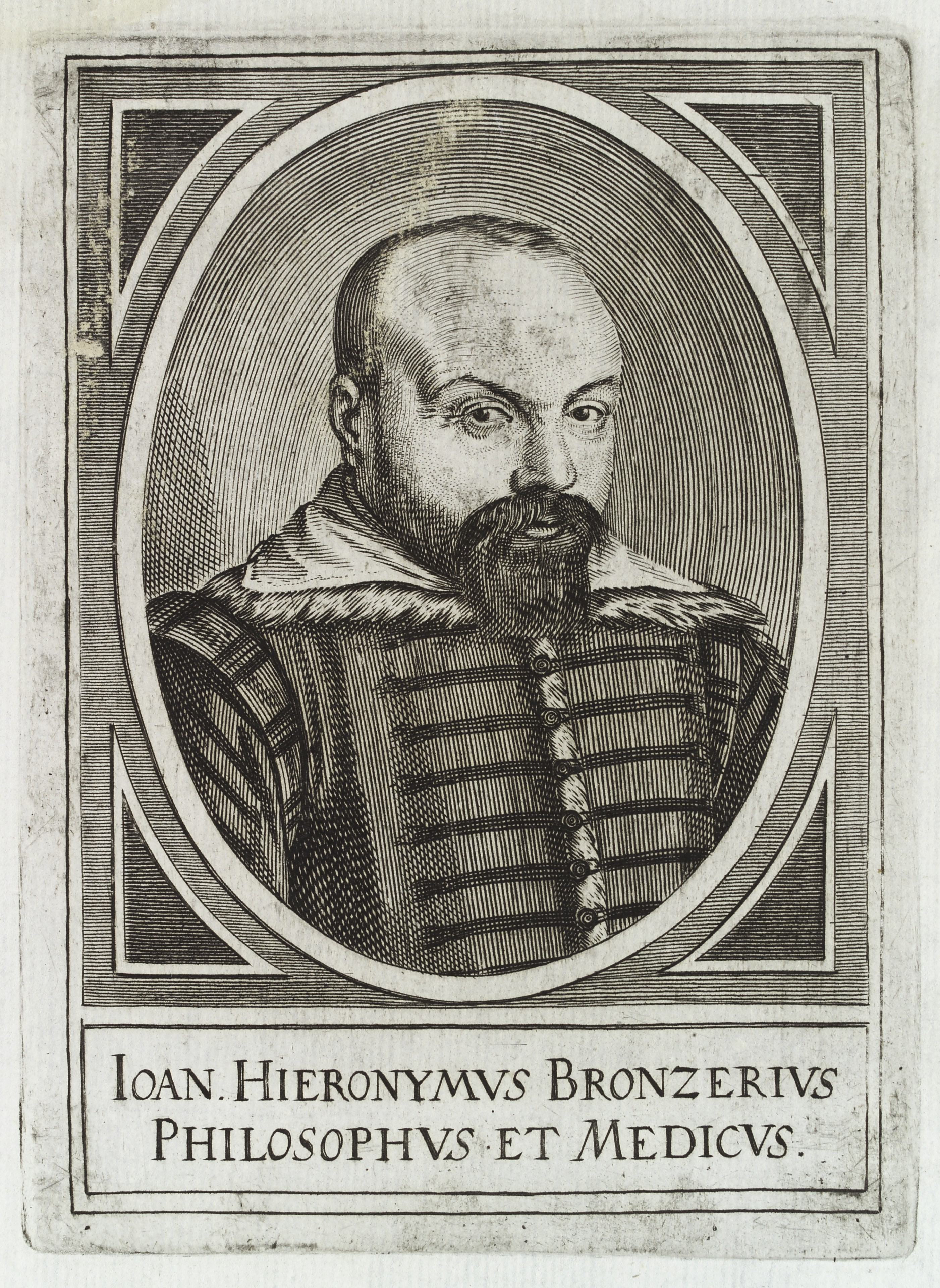 Bronzerius practised medicine in various cities within Venetian territories, ending in Belluno, where he died. He published works on historical and natural philosophical subjects, including: the history of Rovigo; on whether the river Adige was mentioned by Plutarch; a defence of Galen's view on innate heat and natural spirit; and on the anatomy of the liver in the lamprey (Christian Gottlieb Jöcher, Allgemeines Gelehrten-Lexicon, Leipzig 1750-1751, vol. 1 col. 1399). Iconographic Collections Keywords: Natural History; Biology; Italy; Portraiture; Doctor